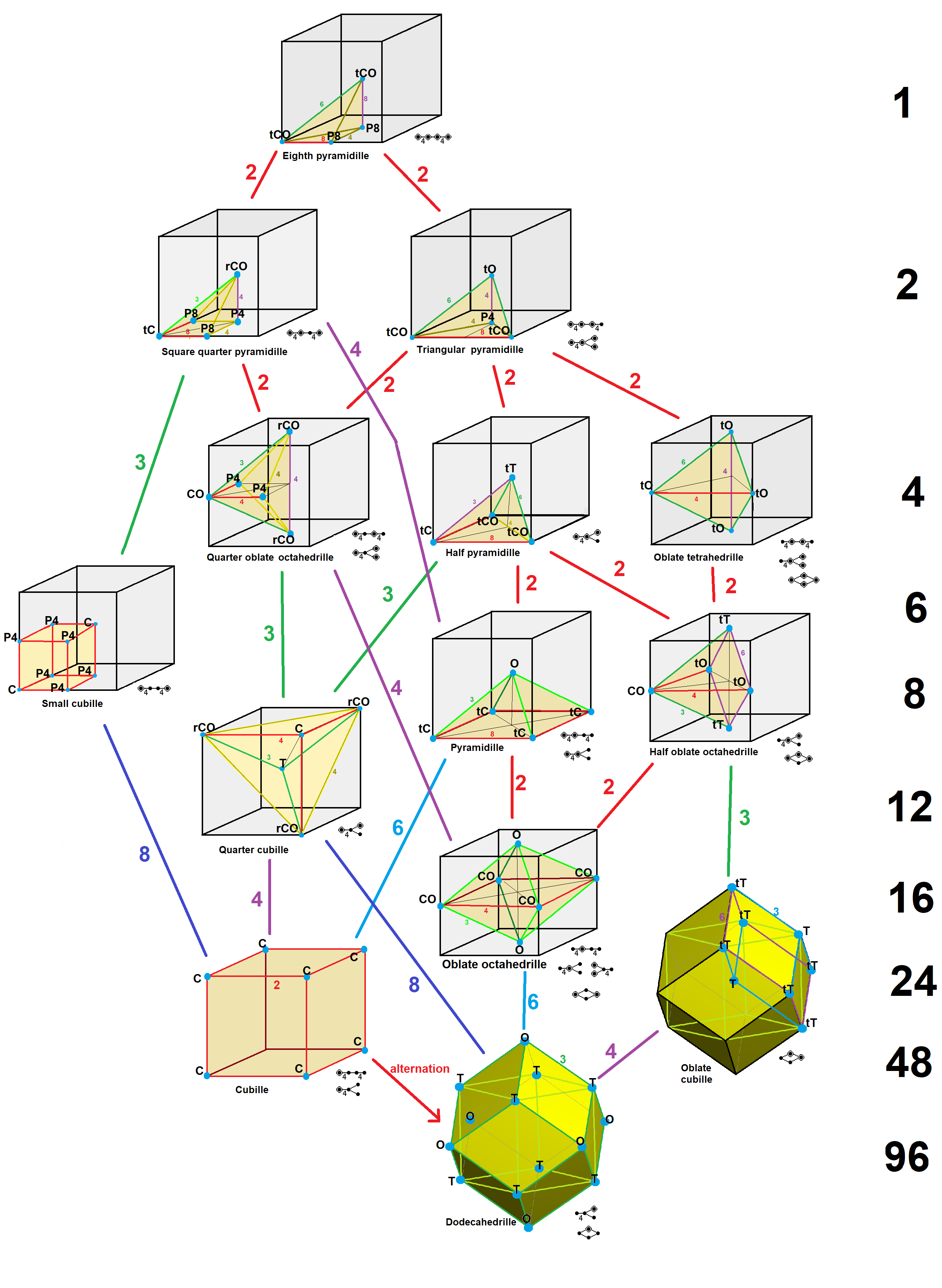 13 cells as duals to the uniform honeycombs. Edges are colored by the number of cells around them. Vertices are labeled by the uniform honeycomb cell centered there. C=cube, O=Octahedron, T=tetrahedron, Pn=n-sided prism, CO=Cuboctahedron, tT=truncated cube, tC=truncated cube, tO=truncated octahedron, rCO=rhombicuboctahedron, tCO=truncated cuboctahedron.